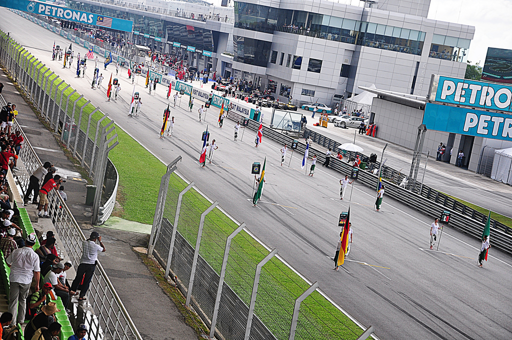 Malaysia 2009 GP flags before race